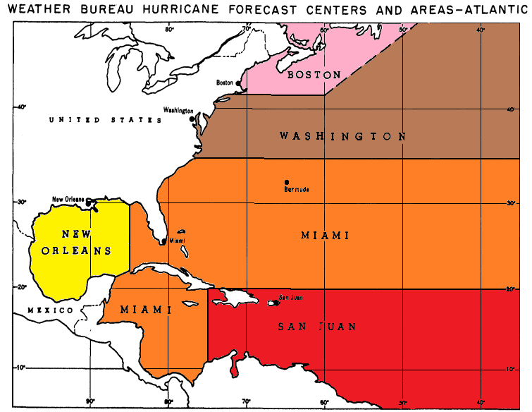 This 1959 image from the United States Weather Bureau shows the different areas advised/warned upon by the various hurricane warning offices